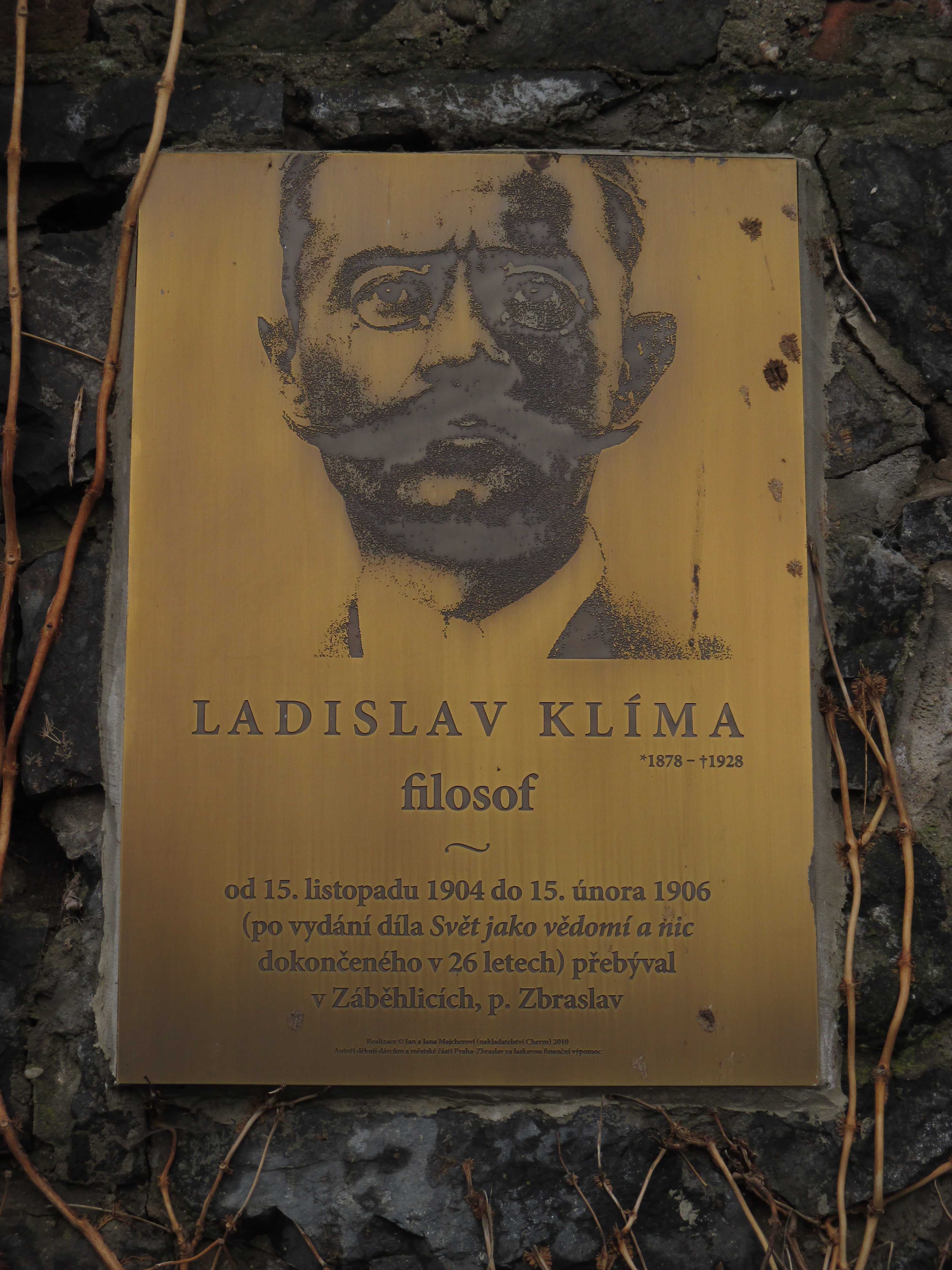 Ladislav Klíma plaque